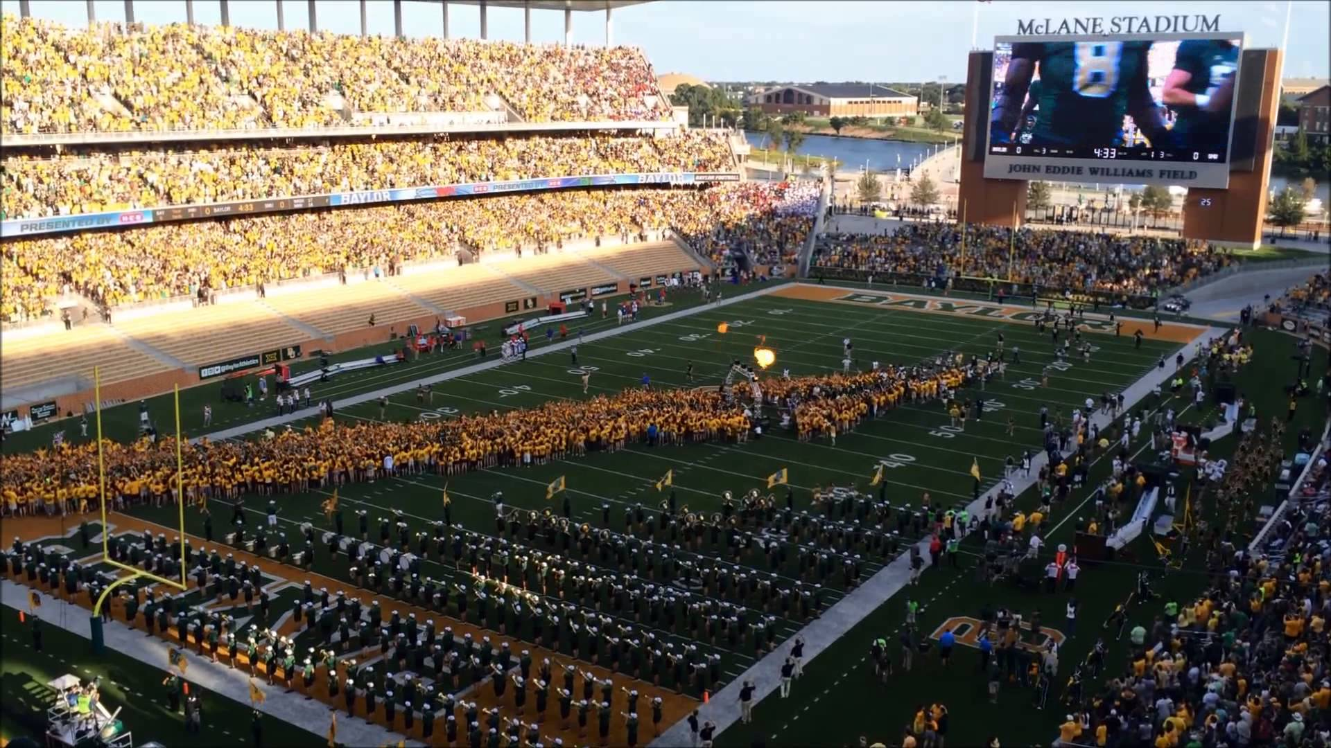 Baylor Line forms tunnel on the field of a home football game